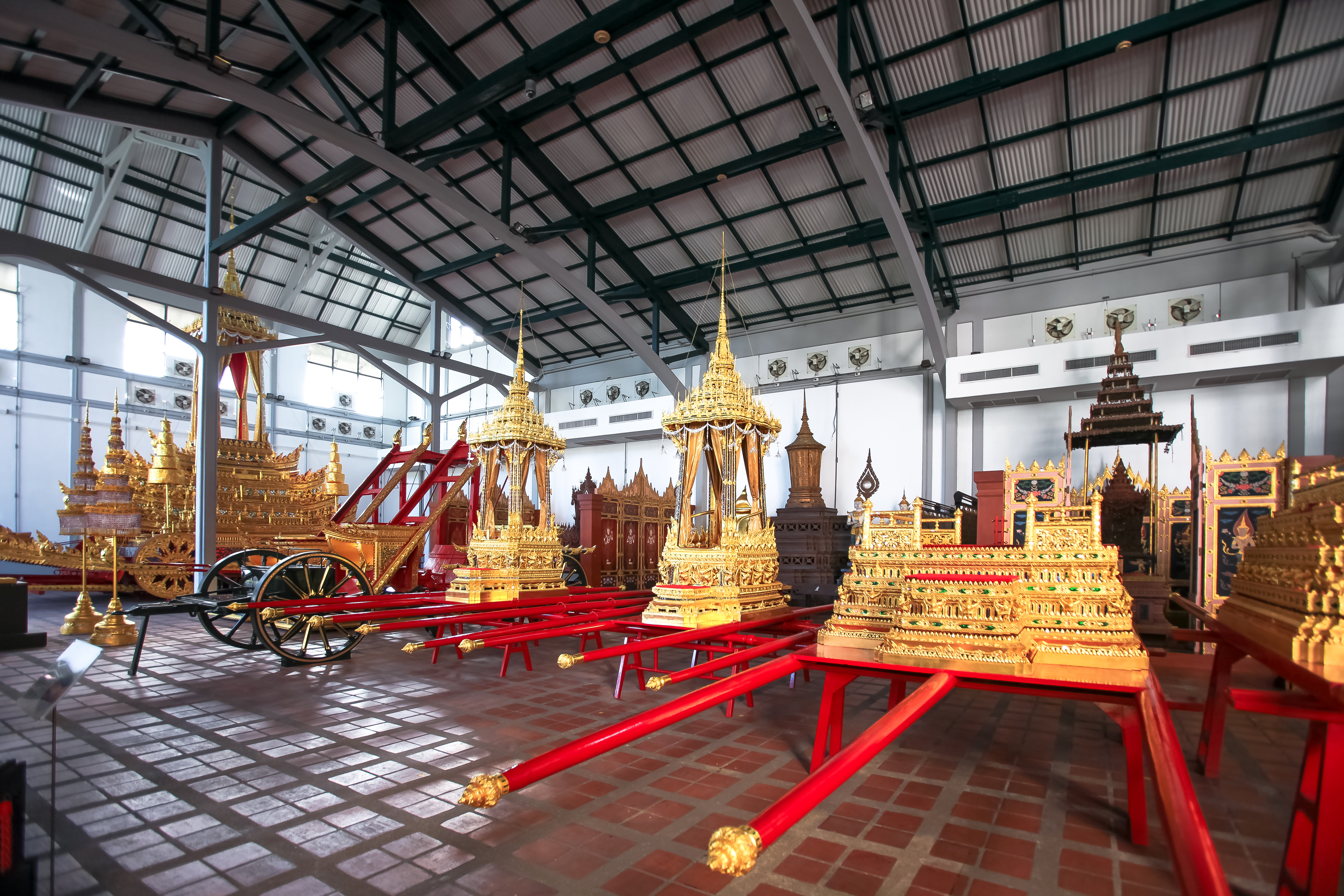 Rachenthrayan Palanquin is a royal palanquin built during the reign of Rama I. The name Rachenthrayan literally means 'vehicle of royal sovereign'.